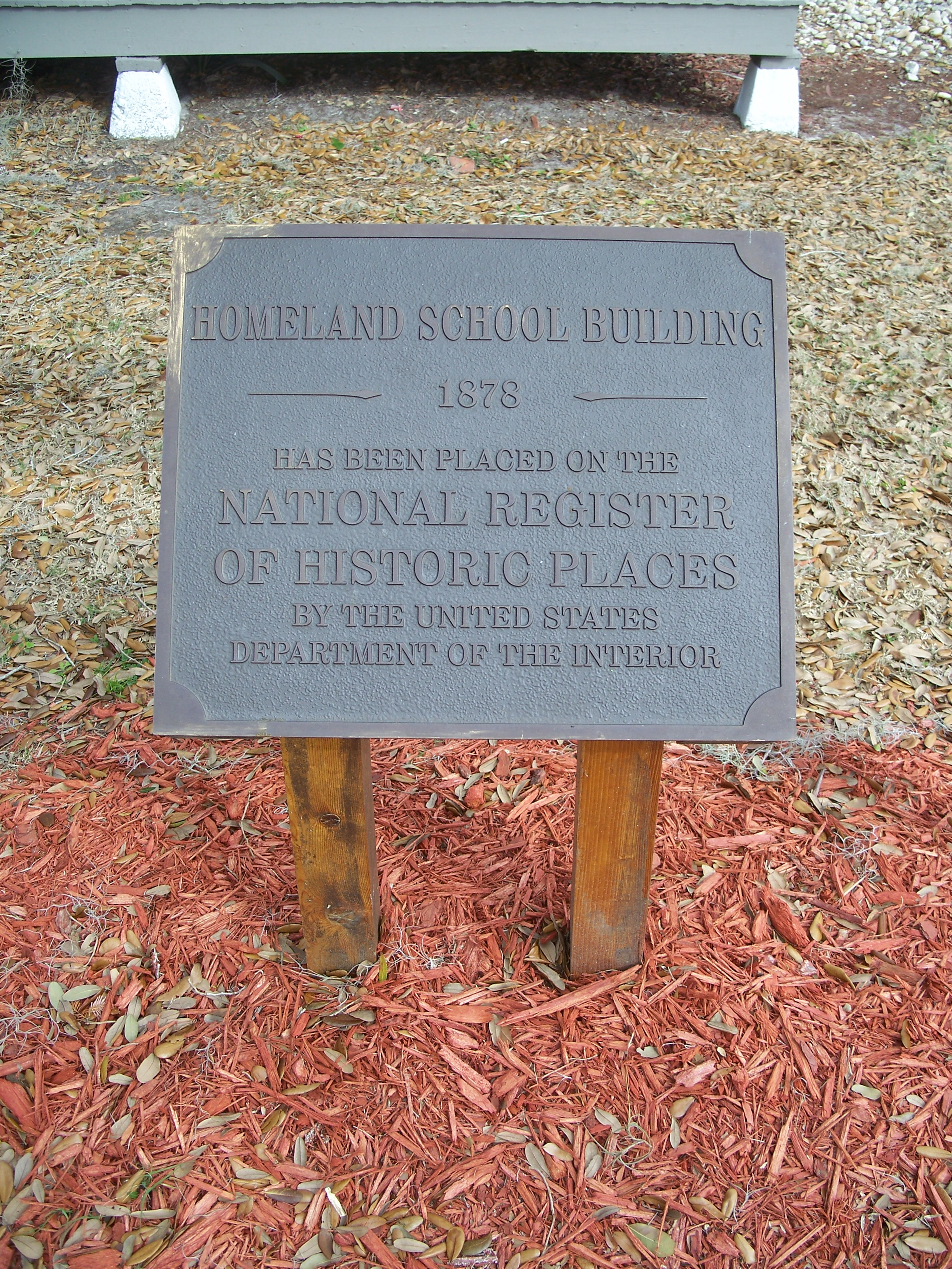 Homeland, Florida: Plaque outside the Homeland School, in the Homeland Heritage Park